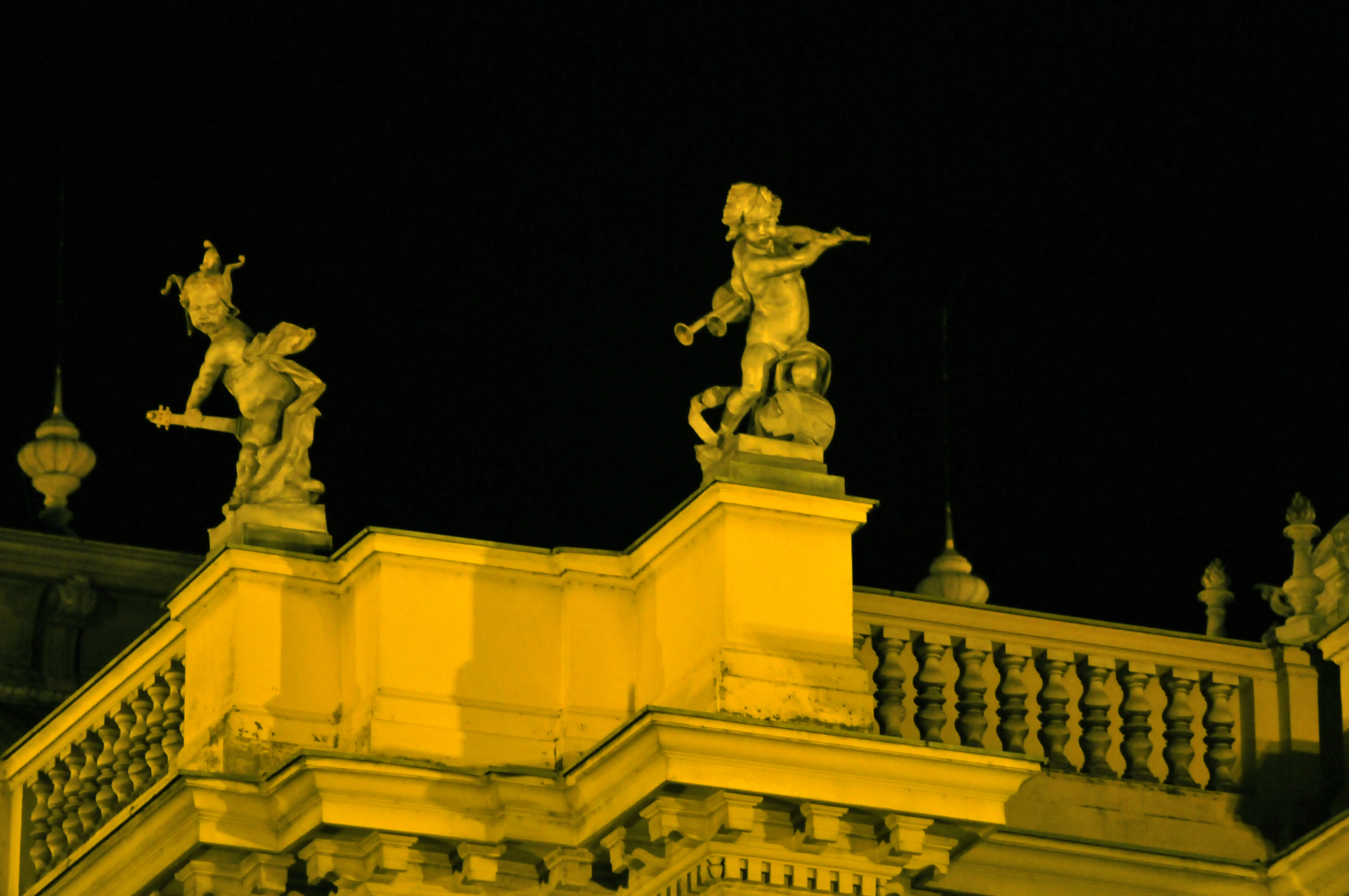 Detail of the National Theater. Zagreb, Croatia